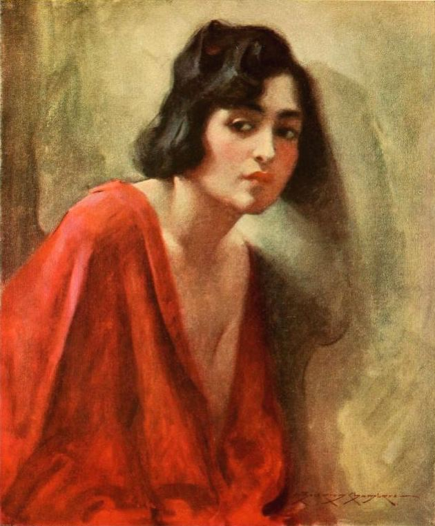 "Gracia" by Charles Bosseron Chambers, on page 8 of the January 1923 Shadowland.